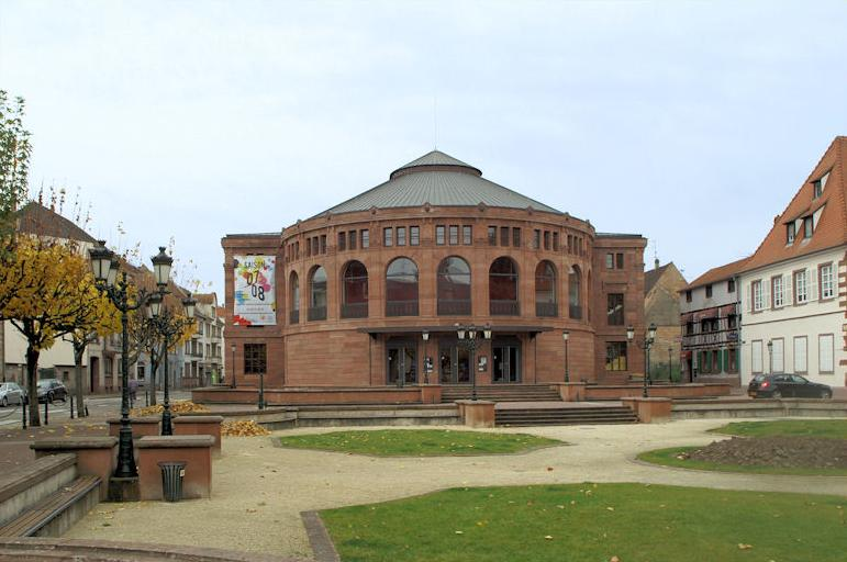 Description Haguenau - teatr Date3 May 2008SourceOwn workAuthorWiesław OrlitaPermission (Reusing this file) Cc-by-3.0 Haguenau - teatr